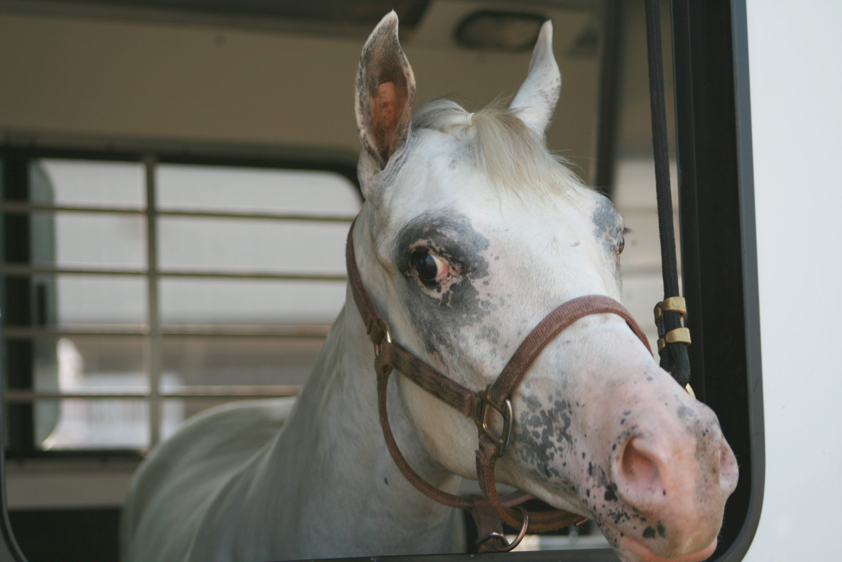 Gi Gi at the show still in the trailer